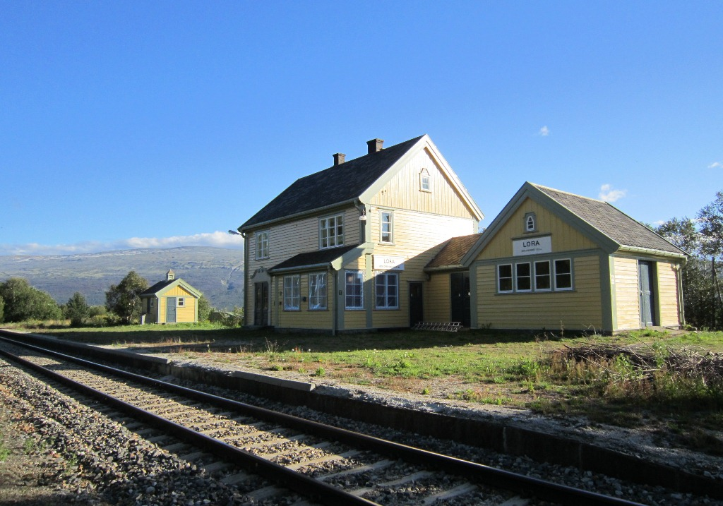 Lora station on the Rauma line